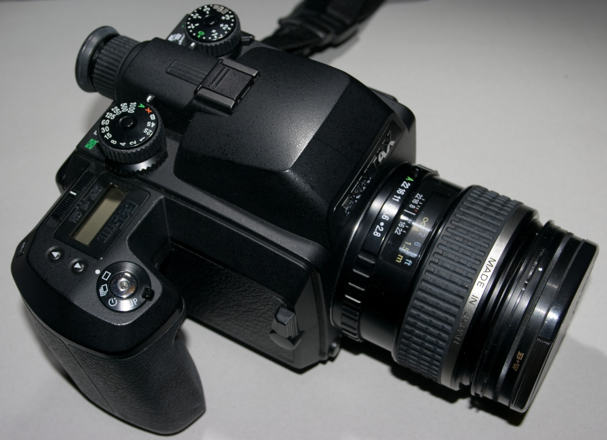 Pentax 645NII medium format SLR photo camera body with Pentax 645 SMC FA 45/2.8 lens.